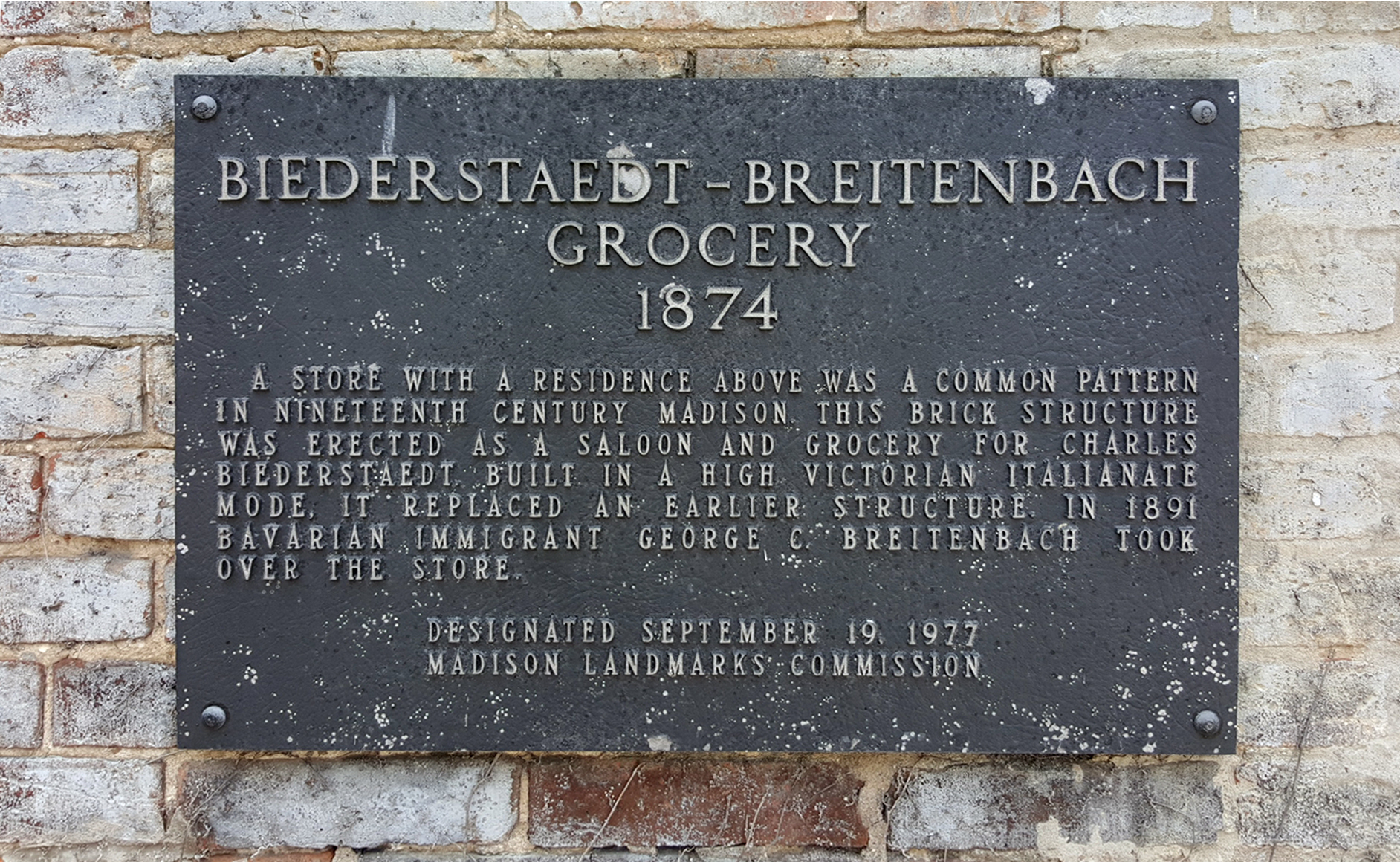 Landmark plaque at the Biederstaedt-Breitenbach Grocery Store in Madison, Wisconsin